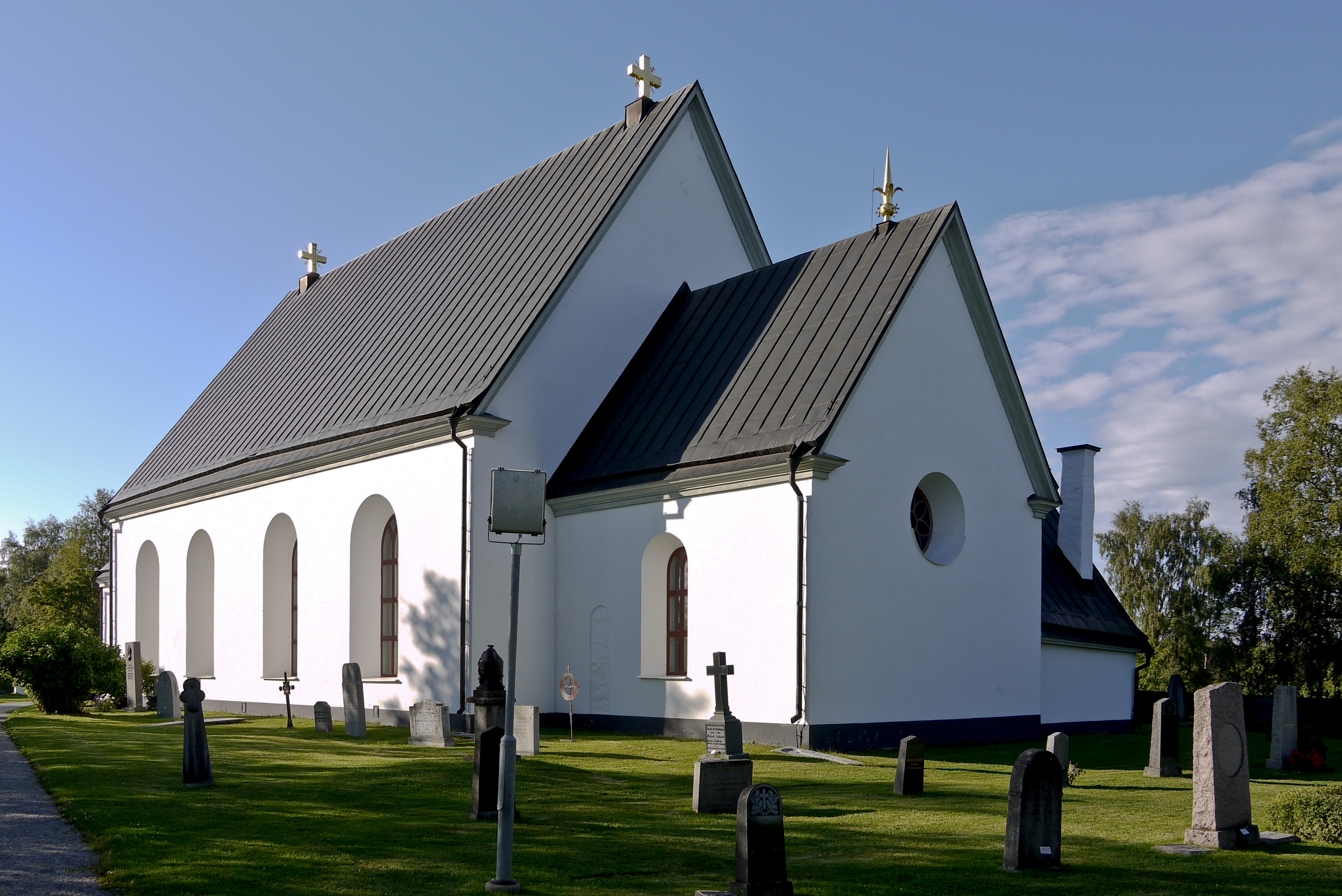 Frösö kyrka/church. Diocese of Härnösand. Östersund, Frösön, Sweden. Side view.